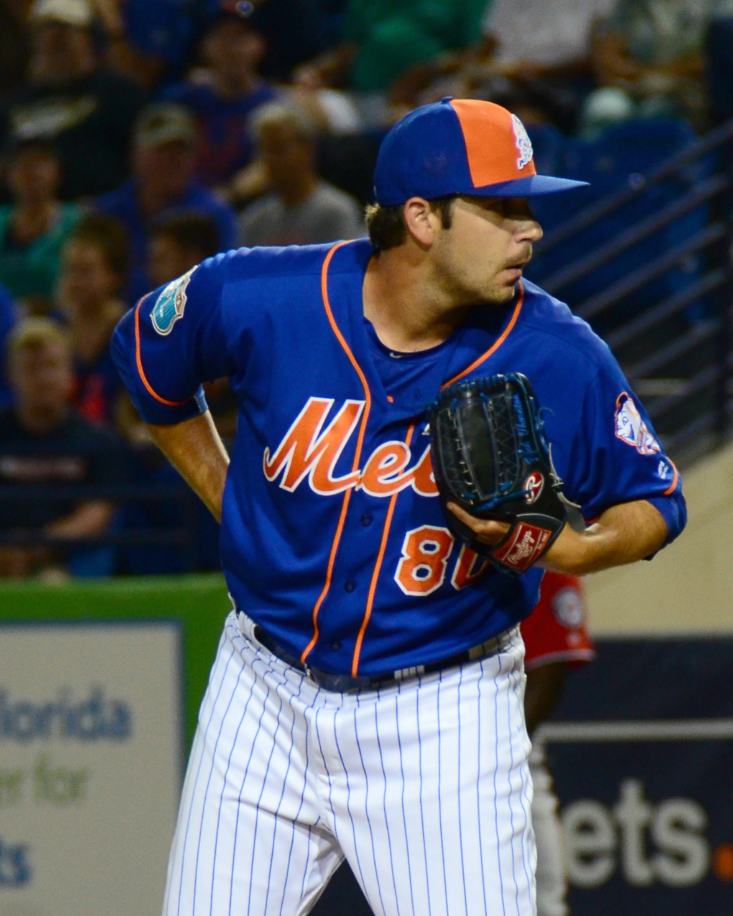 Zack Thornton